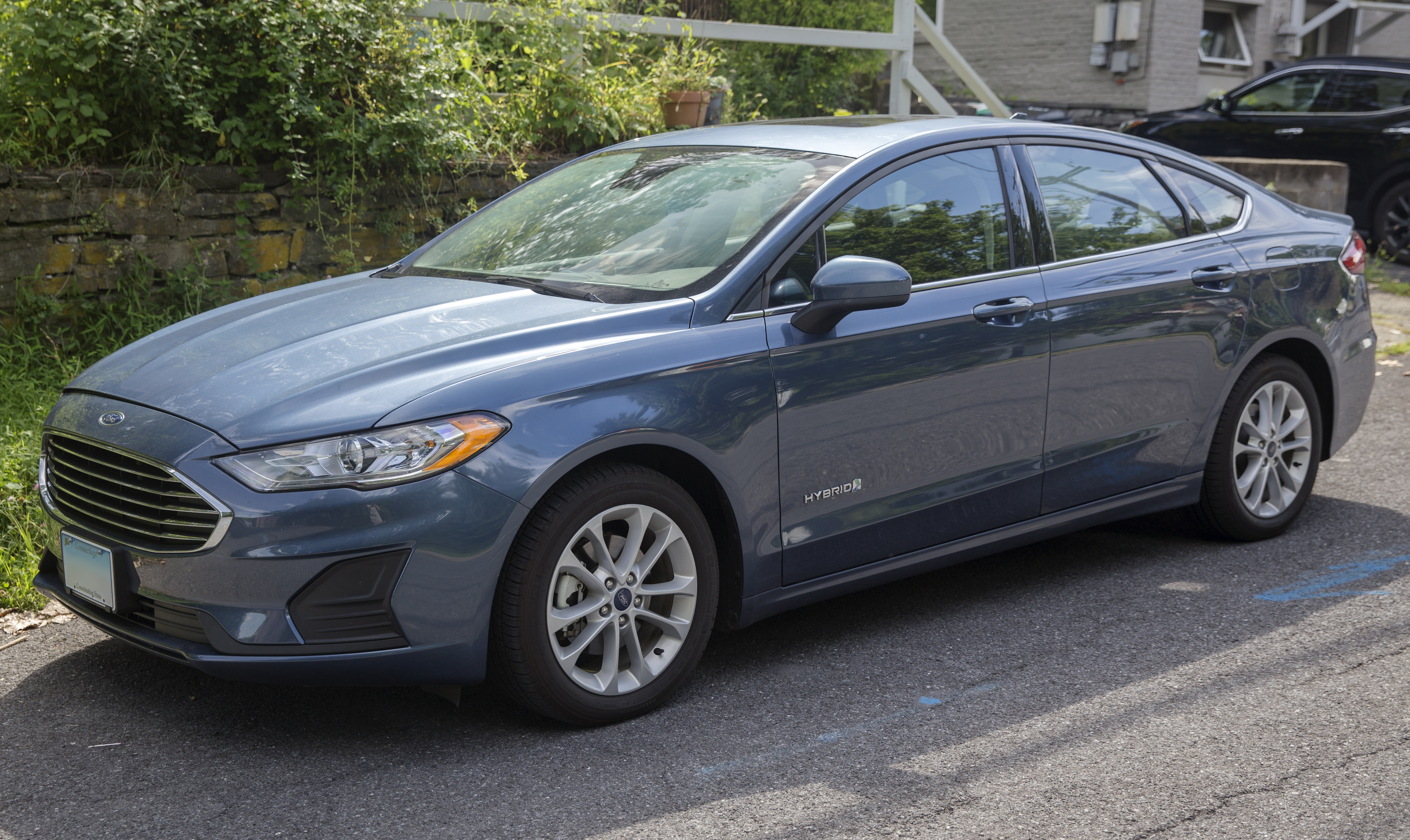 A 2019 Ford Fusion Hybrid SE in Saugerties, NY. Blue metallic, built in Hermosillo, Mexico.